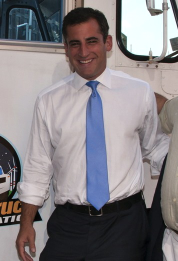 Food Truck Nation with Michael Ross